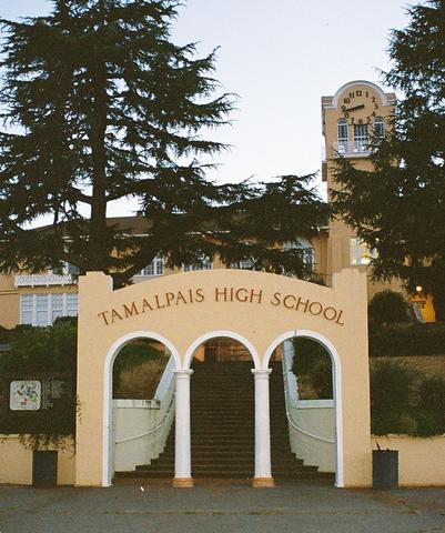 Photo by Skip Lacaze, July 2006.